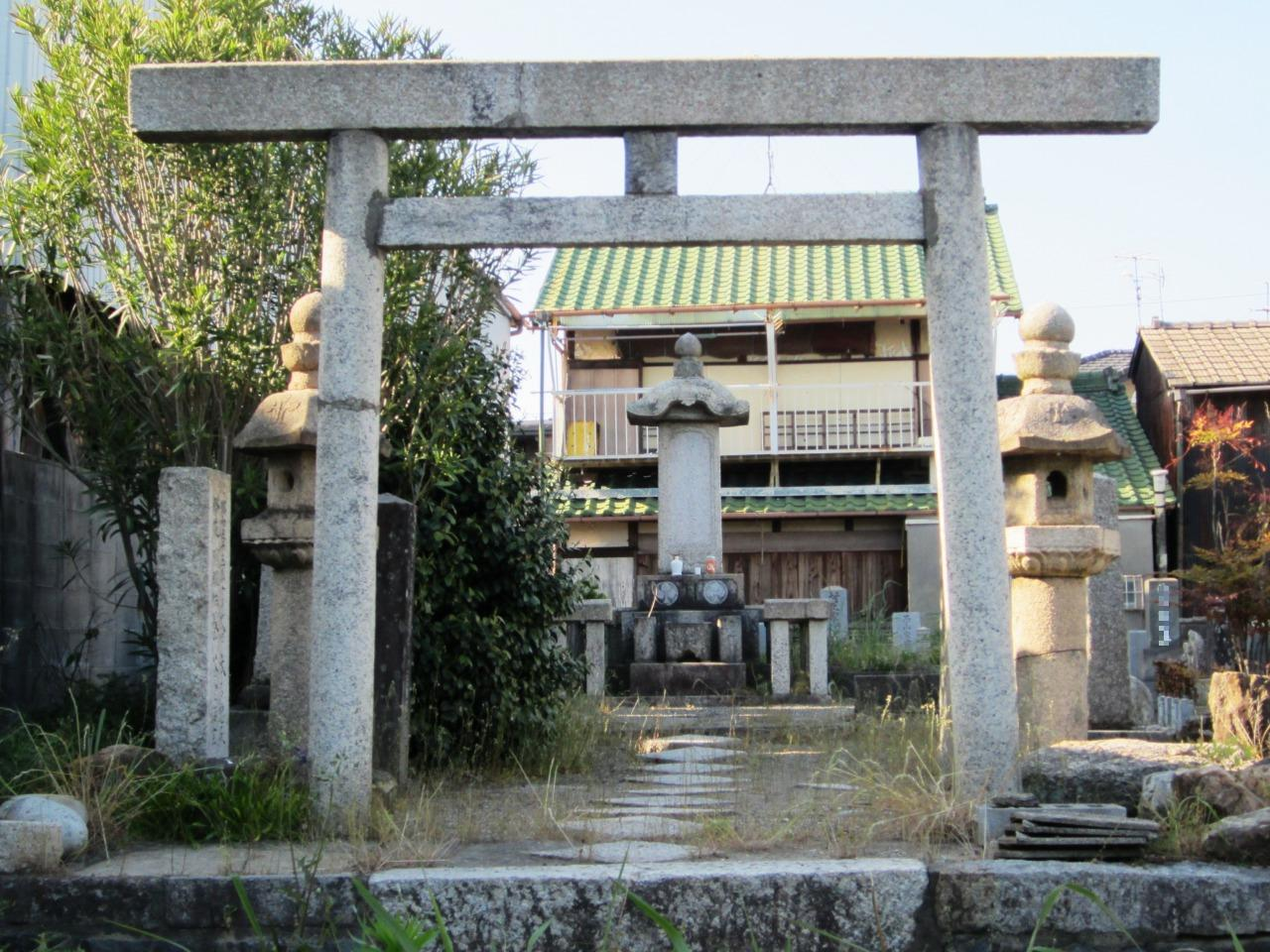 The mausoleum of Honda Tadakatsu in Kuwana, Mie.